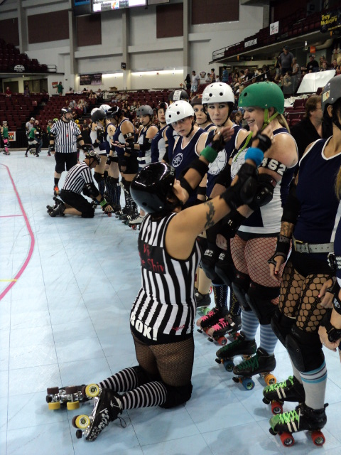 Seattle's Dockyard Derby Dames at an equipment check at Boise's 2010 Spudtown Knockdown.